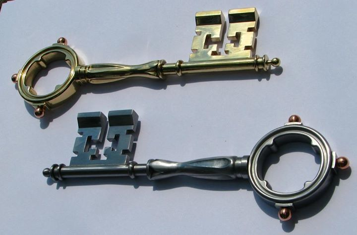 Keys of Heaven, Vatican